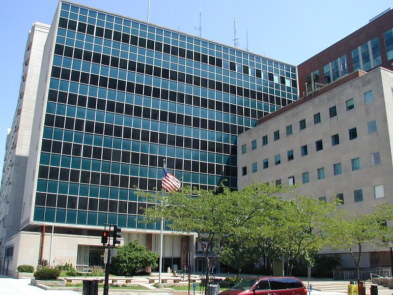 Lansing City Hall — in Lansing, Michigan. 1958 Modernist architecture in Michigan. Criticalthinker, Lansing City Hall on July 7, 2006